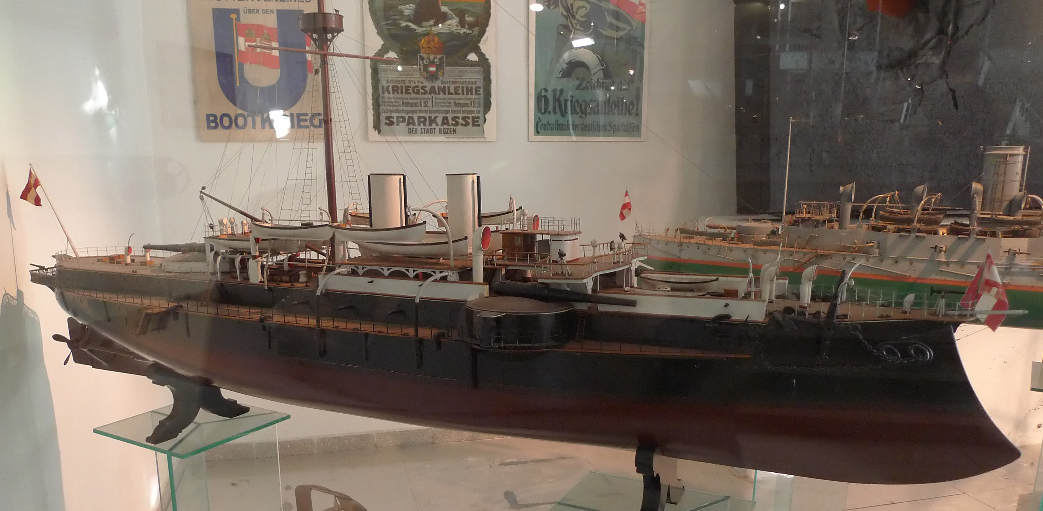 Austro-Hungarian battleship SMS Kronprinz Erzherzog Rudolf (1887). 1:50 scale model at the Heeresgeschichtliches Museum Wien.